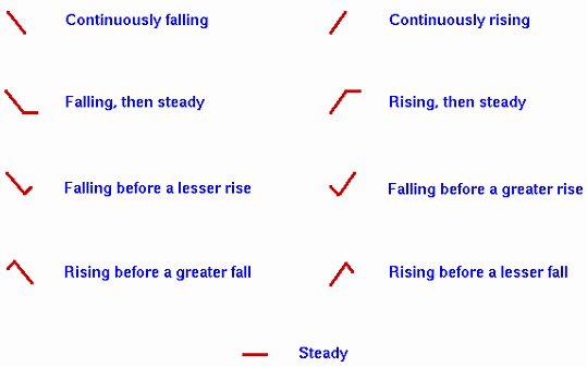 Pressure tendency symbols on a wweather chart